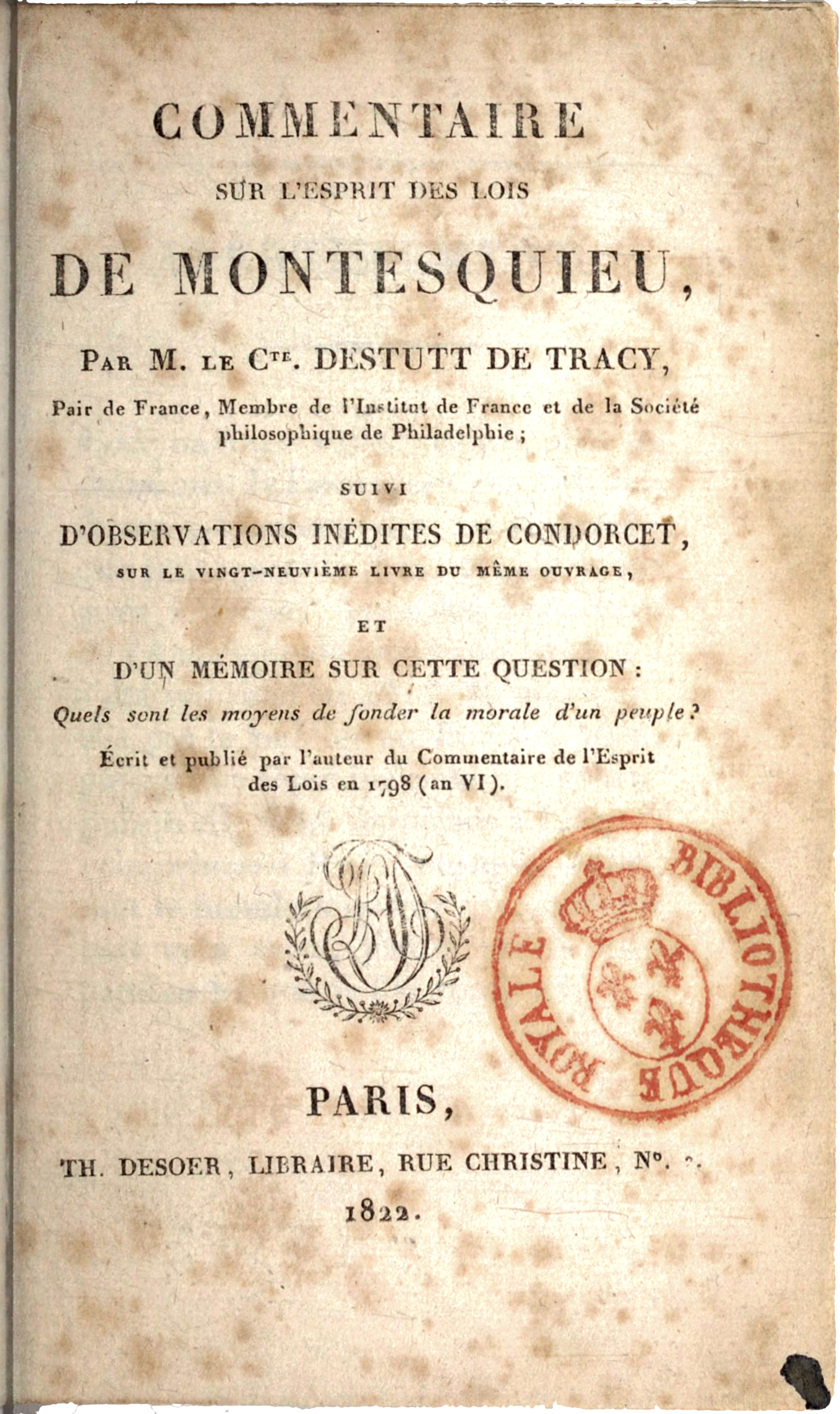 Frontispiece of Destutt de Tracy’s Commentaire sur l'Esprit des lois de Montesquieu suivi d'observations inédites de Condorcet sur le vingt-neuvième livre du même ouvrage, et d'un mémoire sur cette question : quels sont les moyens de fonder la morale d'un peuple, écrit et publié par l'auteur du commentaire de l'Esprit des lois en 1798.